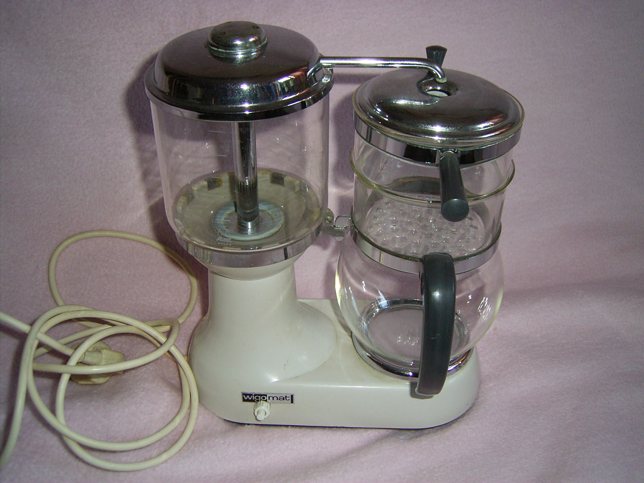 Late version of the first Wigomat, pre 1958